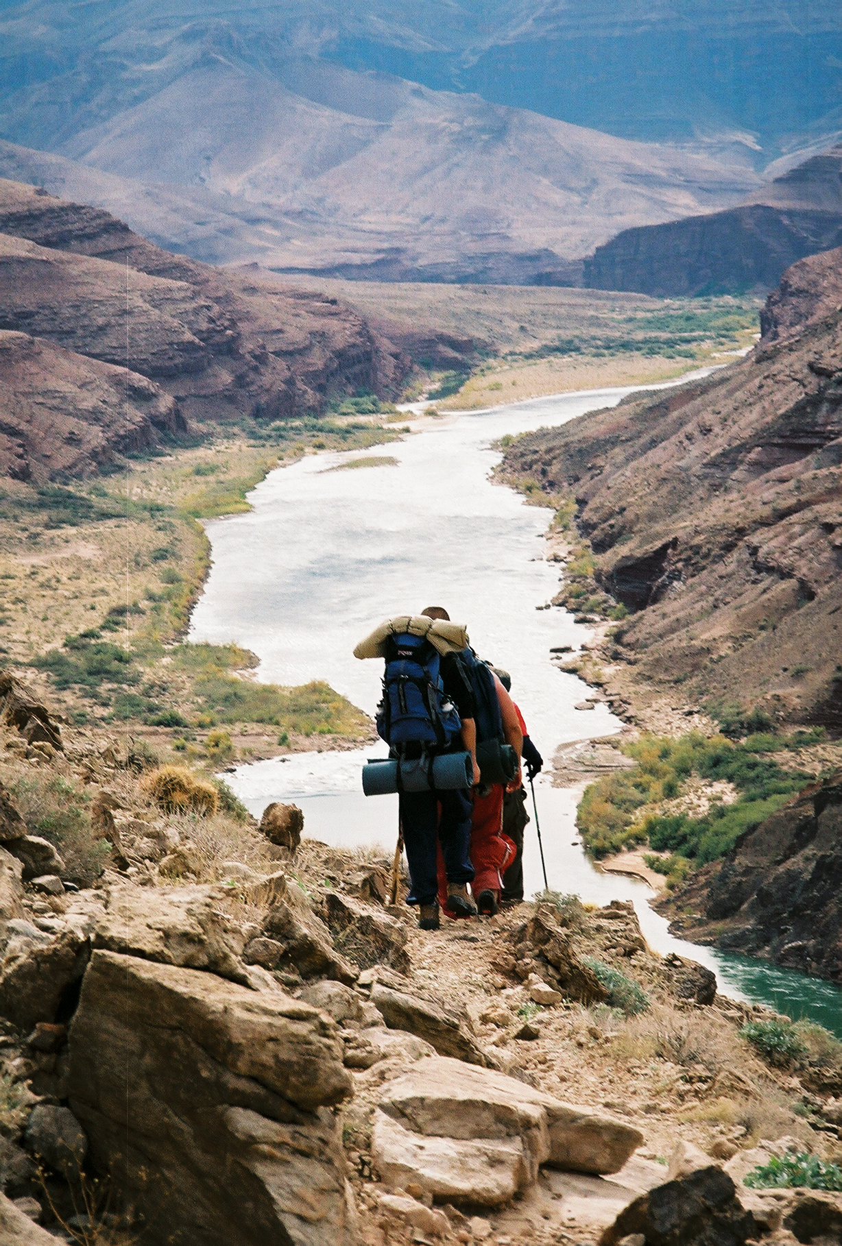 Hikers walking along the Beamer Trail, the Colorado River visible in the background.